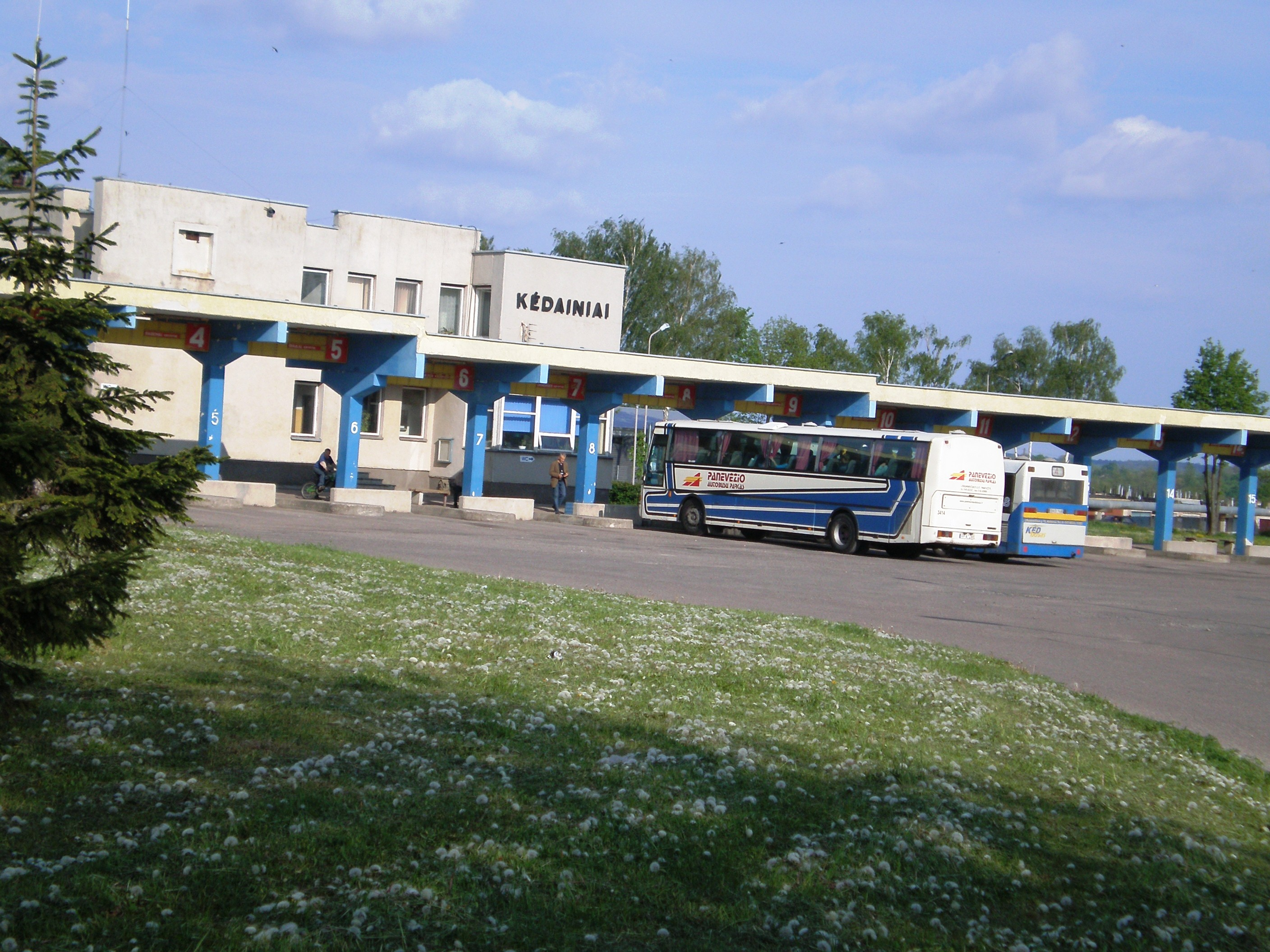 The bus station of Kėdainiai, Lithuania. The vehicle in the center is a Berkhof Excellence, no. 3414 of Panevėžio autobusų parkas.